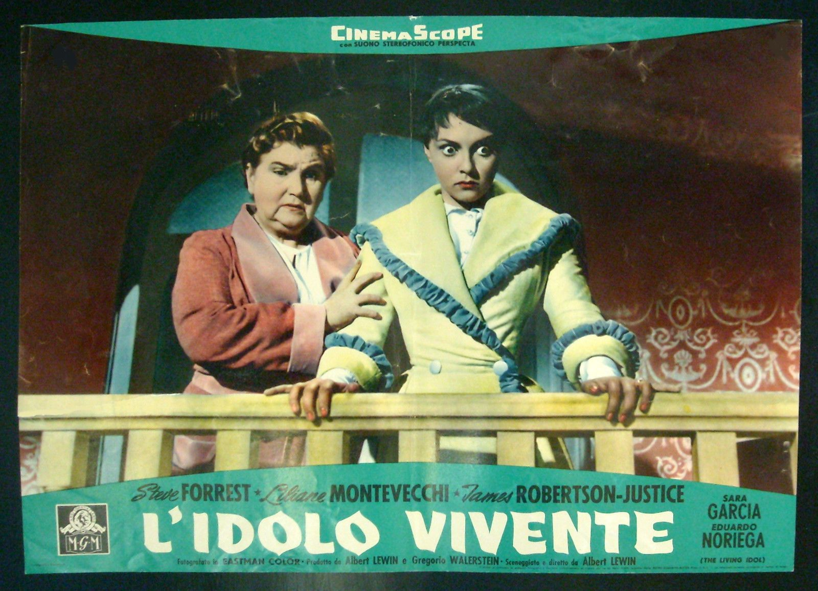 Movie poster of The Living Idol (1957) with Sara García and Liliane Montevecchi.